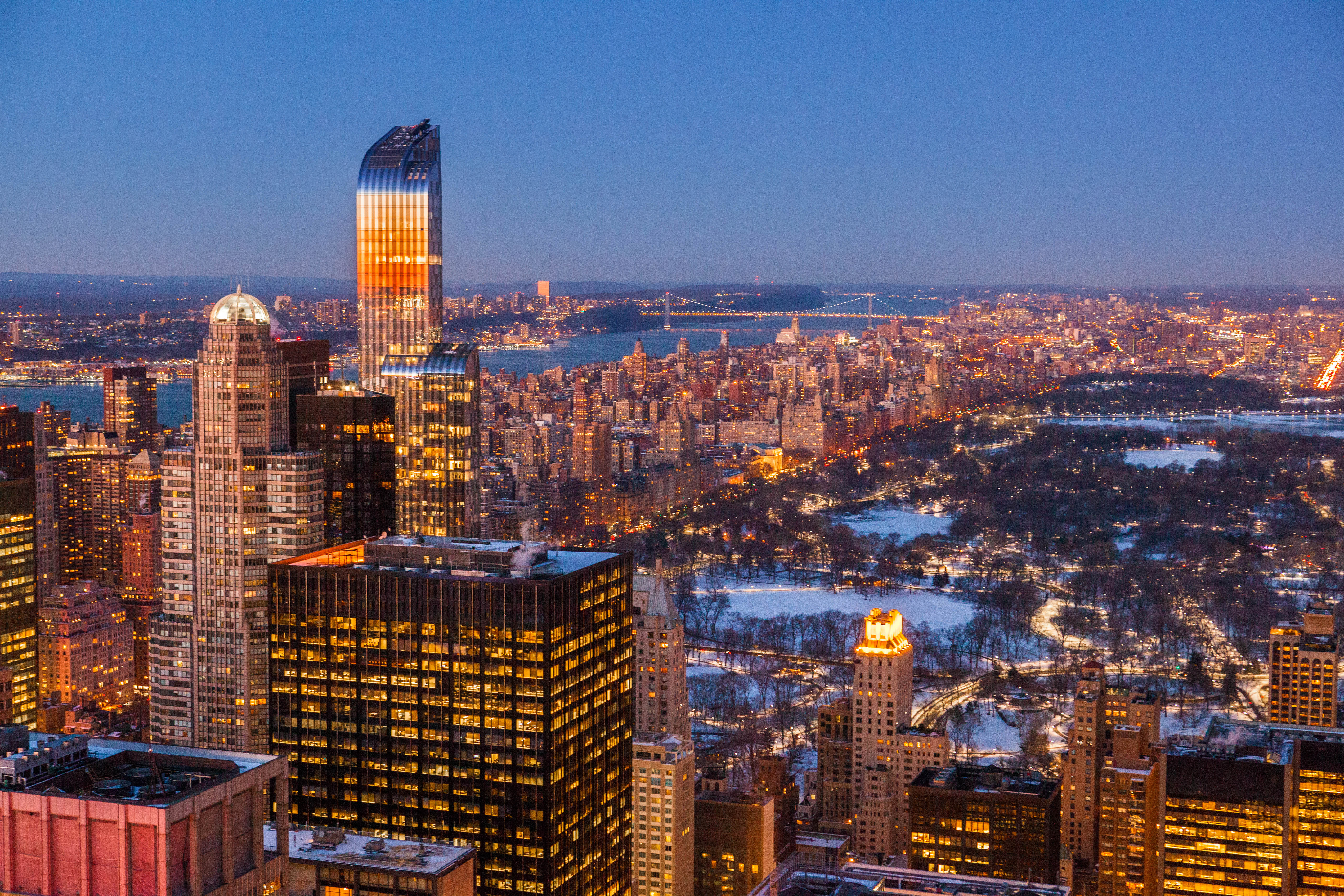 One57 late January 2015, as seen from the Top of the Rock.